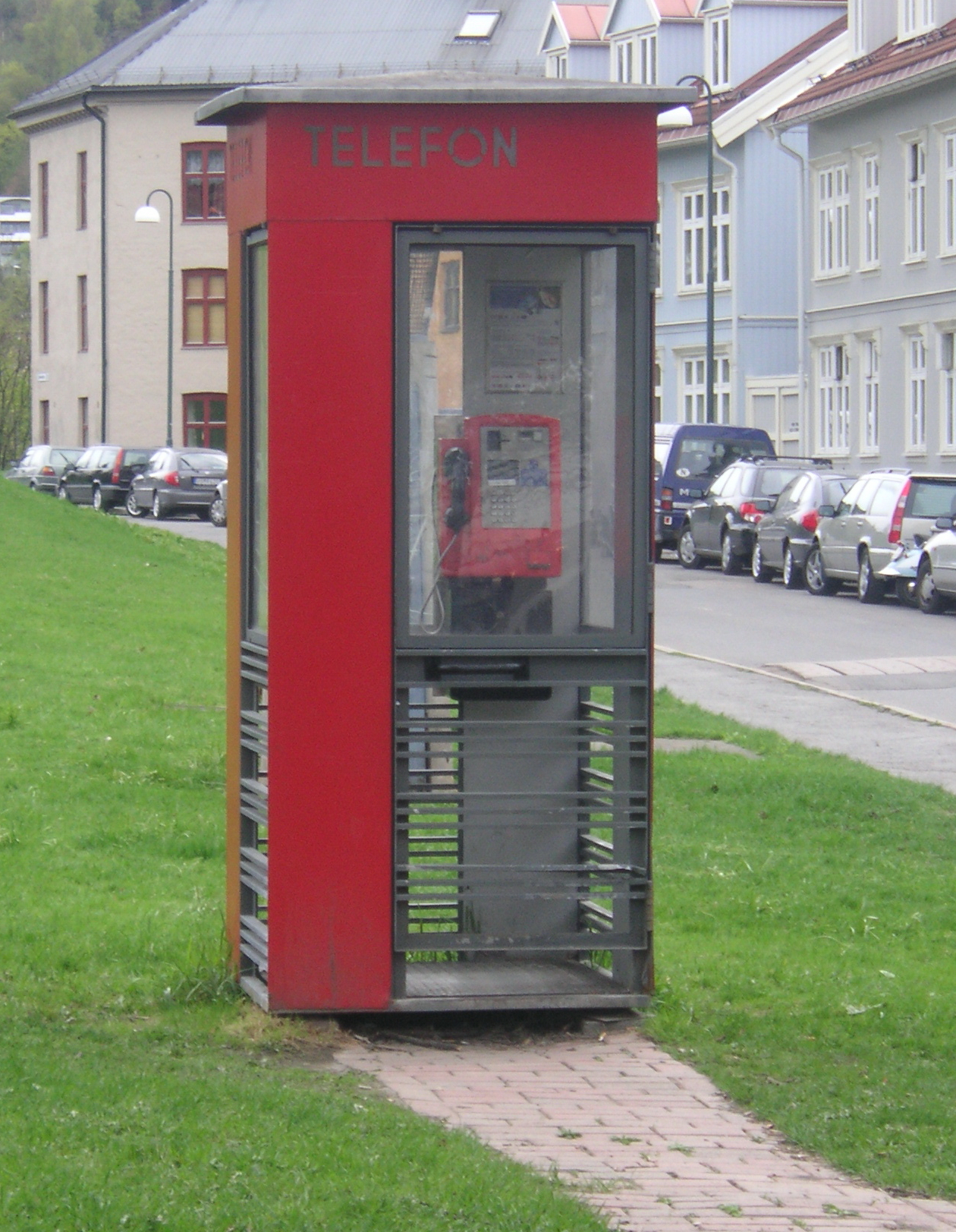 A norwegian phone booth, from Oslo. This booth was designed in 1932 by architect Georg Fasting and is an excample of functionalism in architecture.